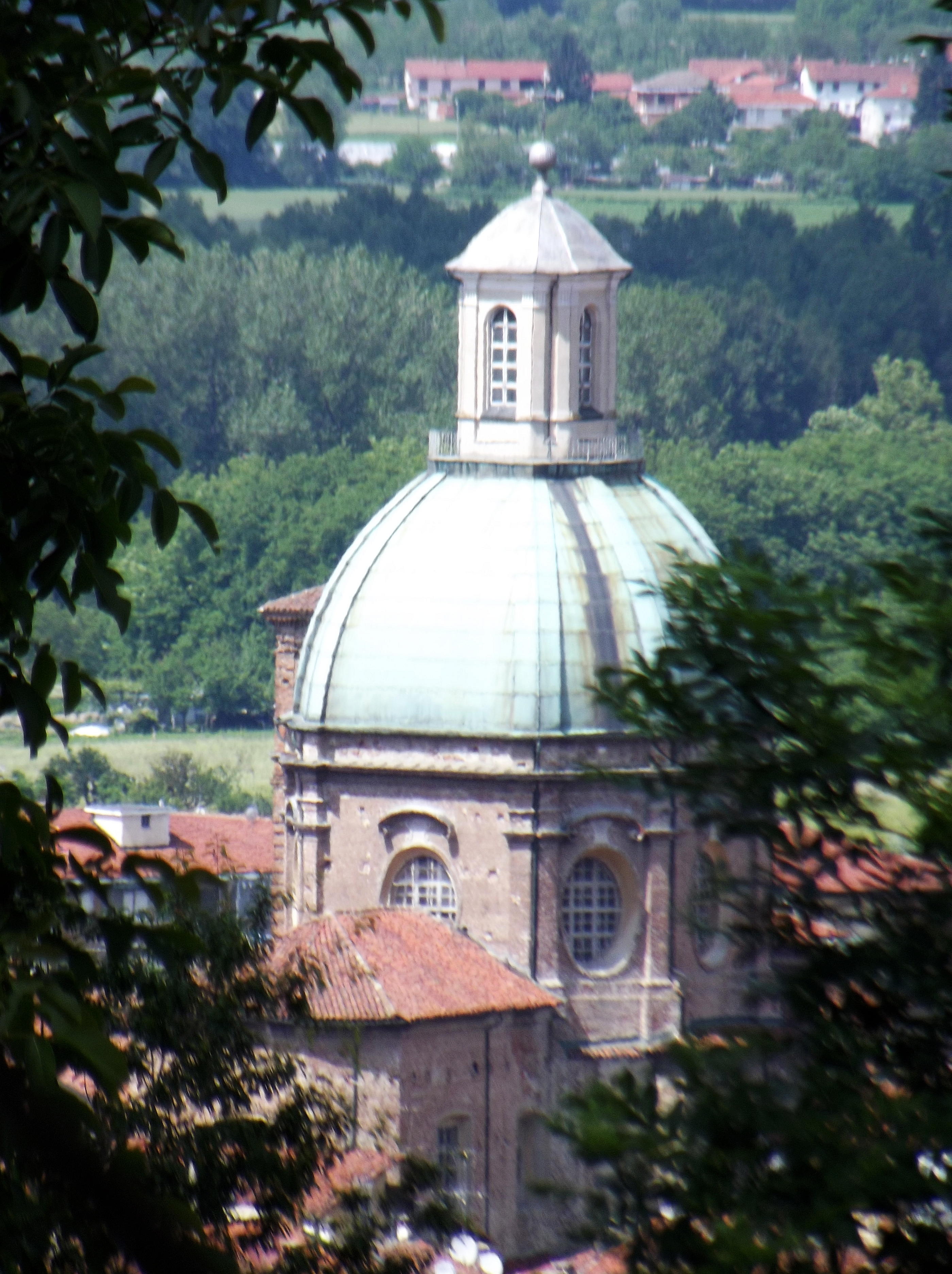 Gassino (TO, Italy): the dome of the confraternita dello Spirito Santo church